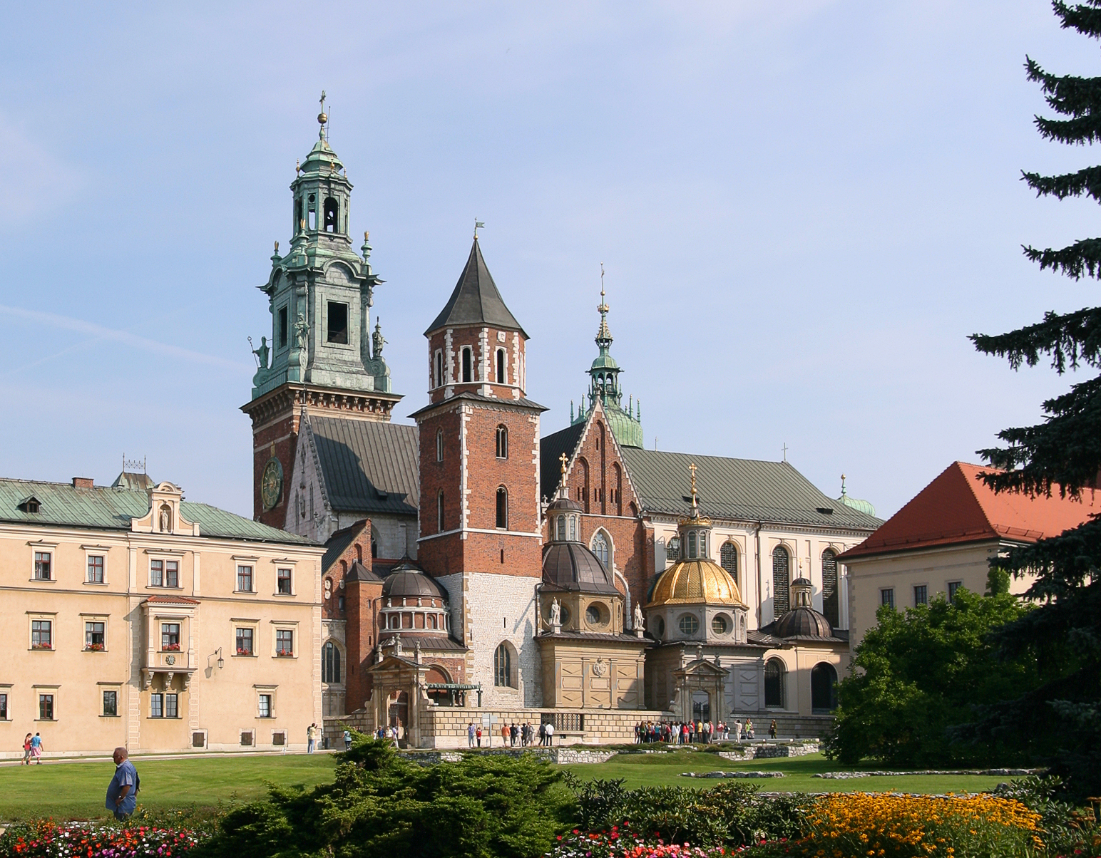 Wawel Cathedral, Krakow